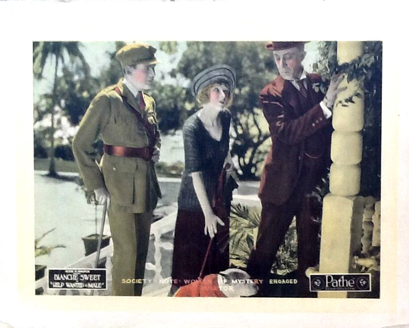 Lobby card from the 1920 film Help Wanted-Male.